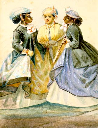 Three African American women in fashionable dress of the era, New Orleans, 1867